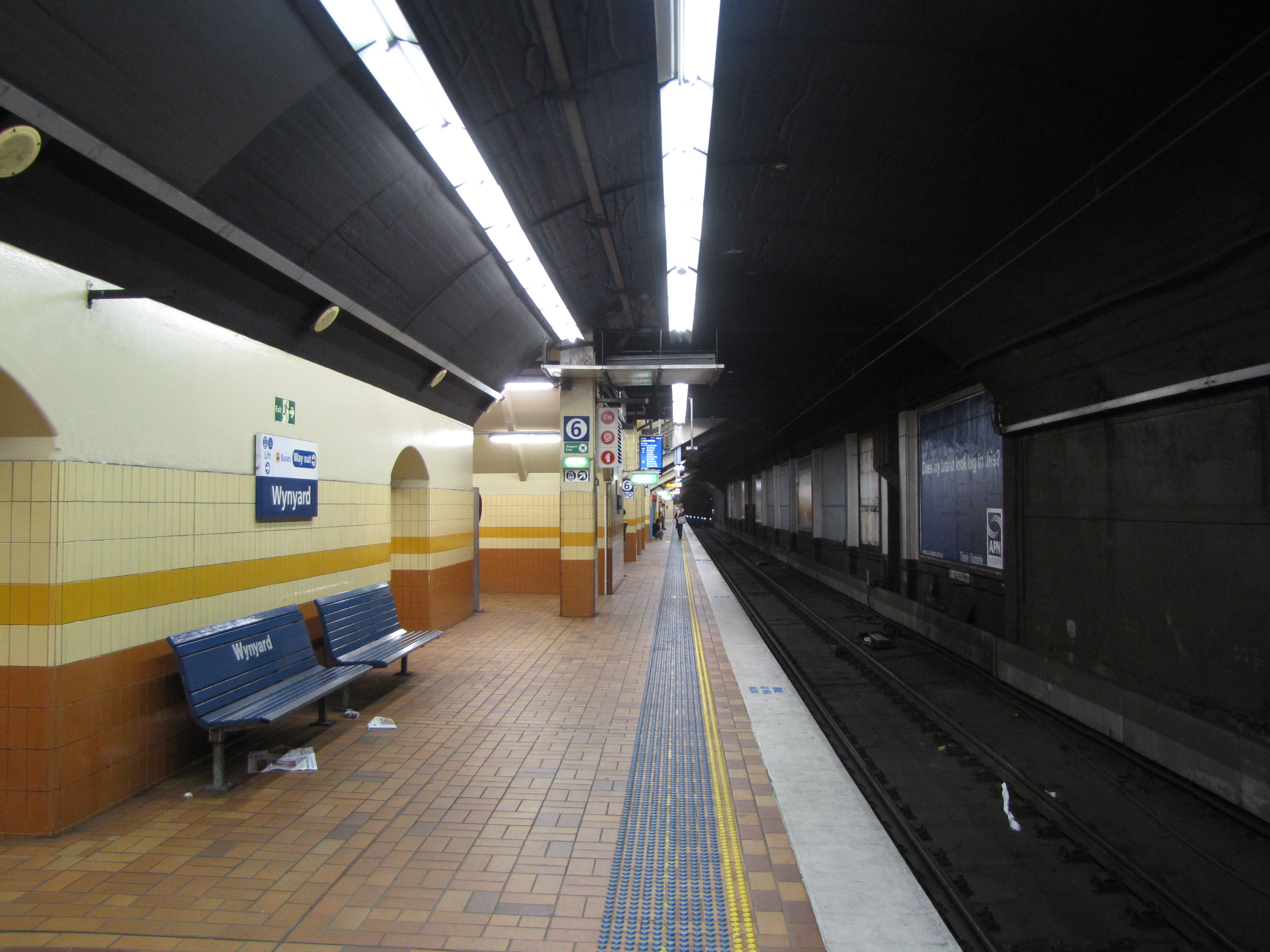 Platform 6 at Wynyard station.